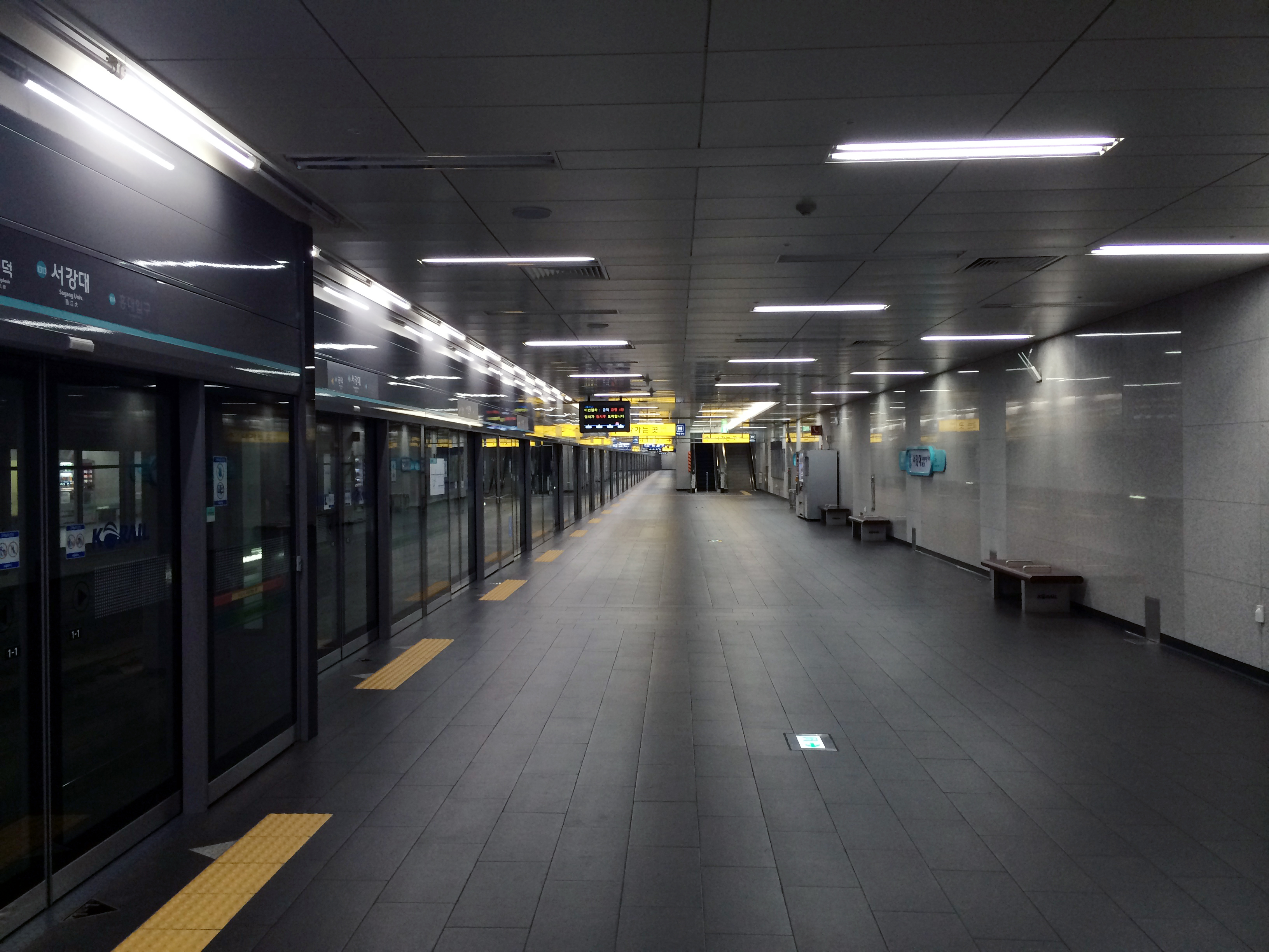 Platform of Sogang University Station